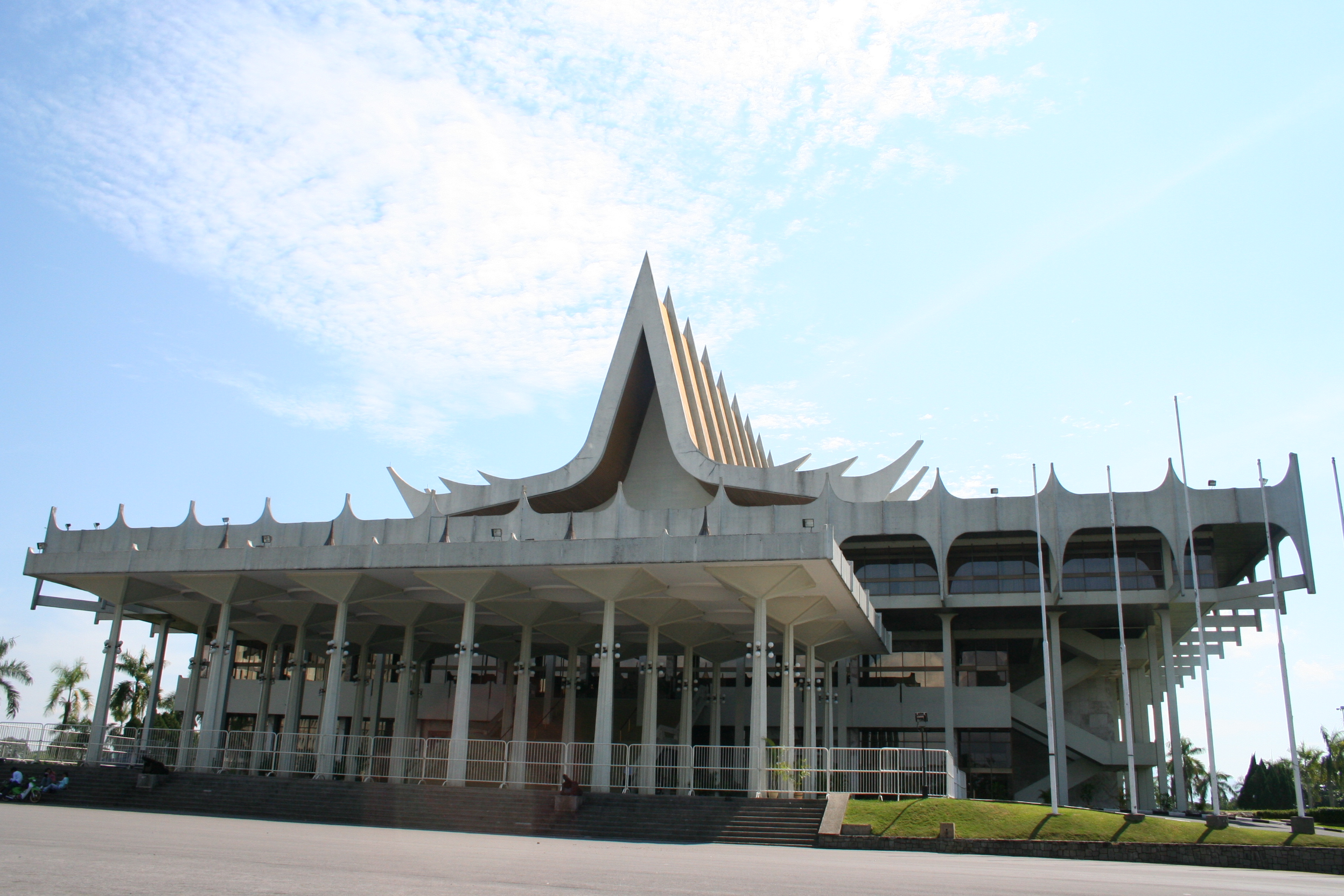 The Sarawak State Legislative Building Kennysia (talk) 20:25, 5 January 2009 (UTC) Photo taken by Kenny Sia of .